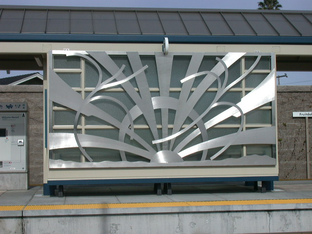 Metal screens designed by San Jose, CA artist Diana Pumpelly Bates that adorn the Fruitdale station on the Santa Clara VTA light rail system.